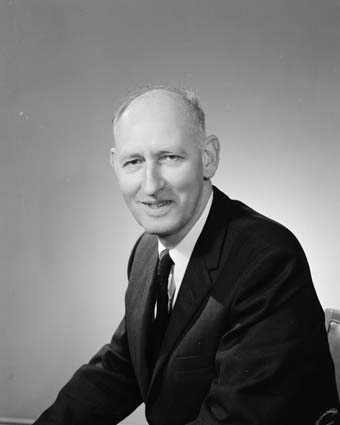 Australian diplomat James Plimsoll